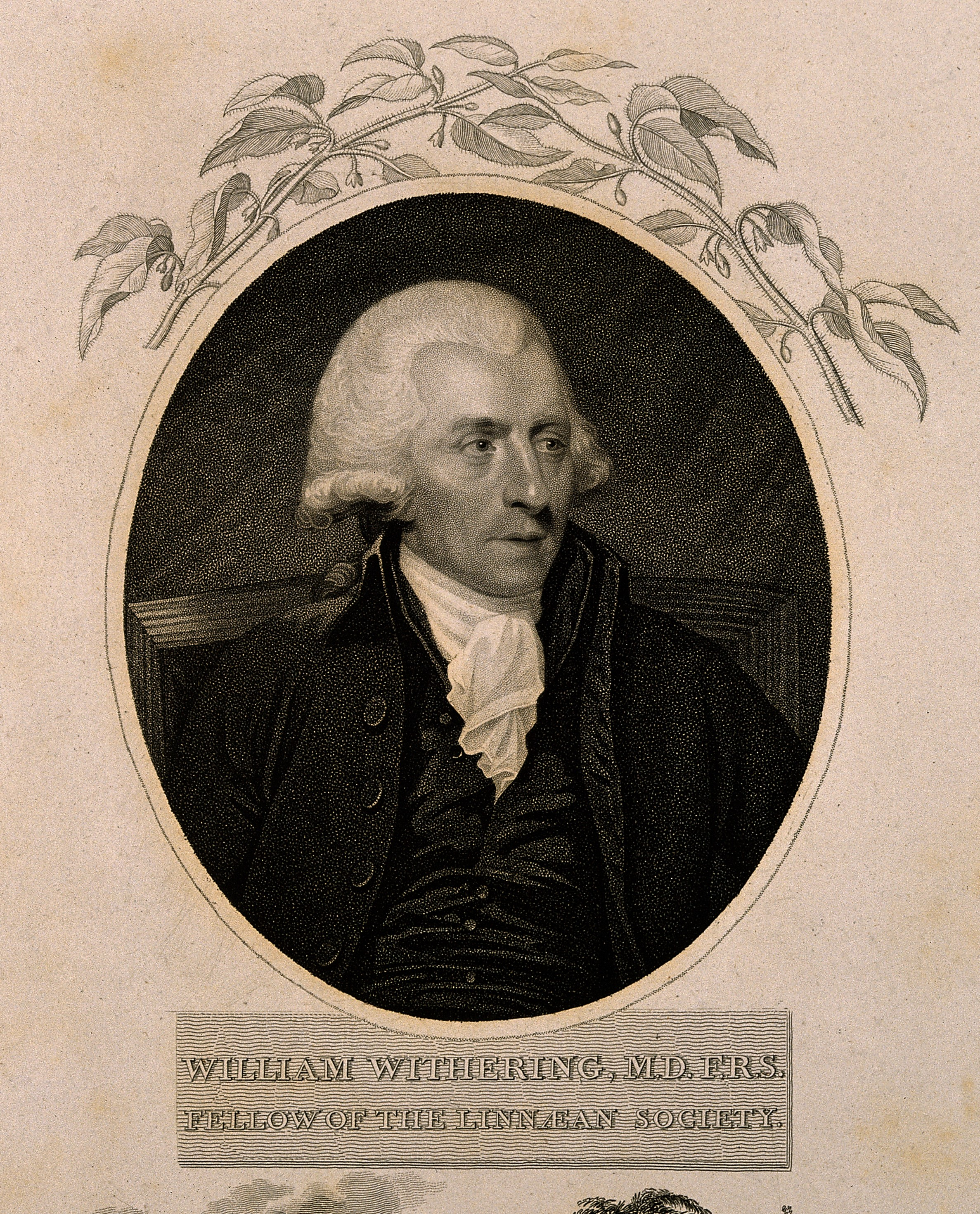 William Withering. Stipple engraving by W. Ridley, 1801, after C. F. von Breda. Iconographic Collections Keywords: portrait prints; William Ridley; stipple prints; William Withering; C. F. von Breda